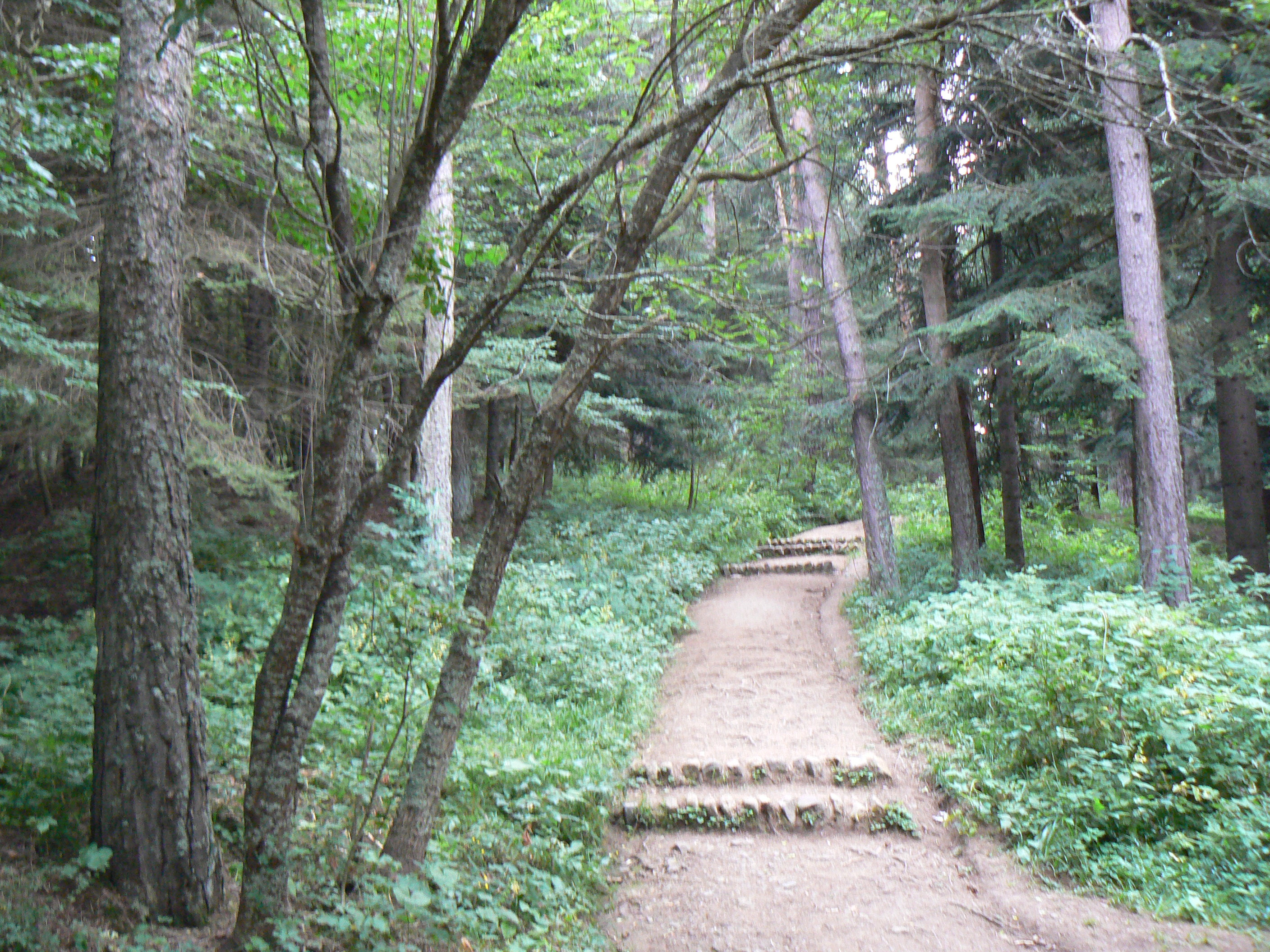 Alley in Stepanavan Dendropark, Armenia